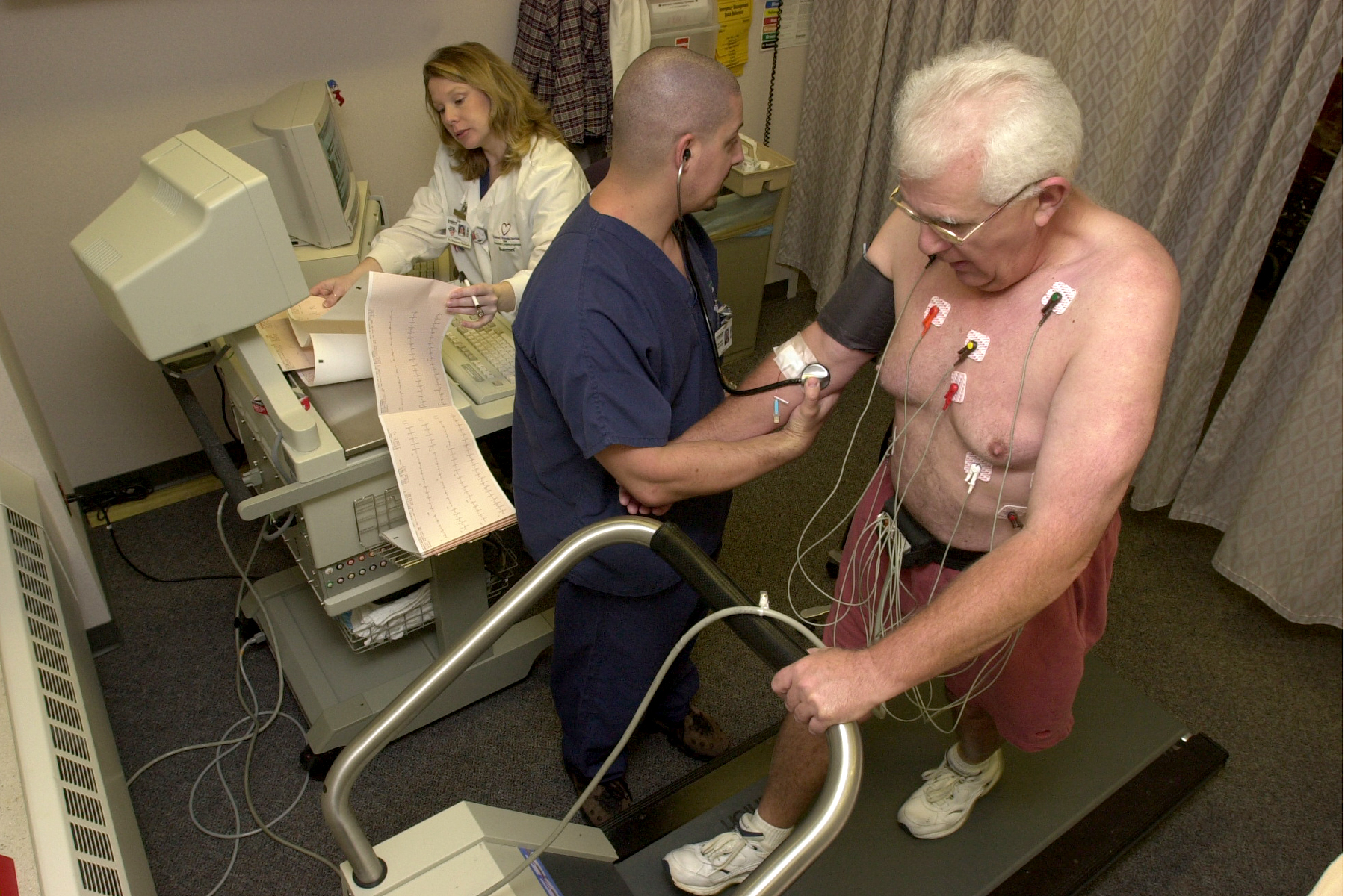 Stock footage taken at Beaumont Hospital. 14:18, 28 October 2006 (UTC)